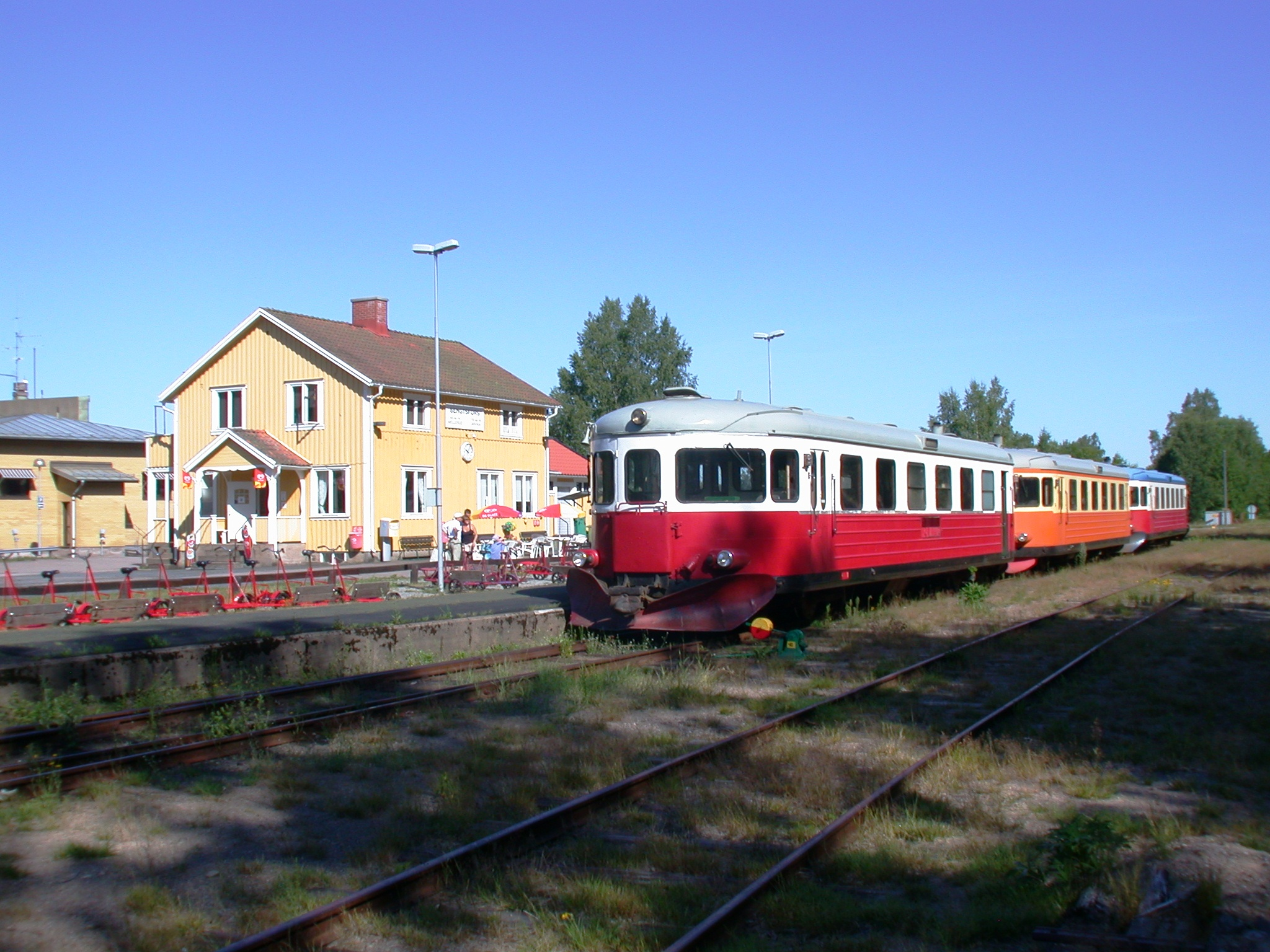 Bengtsfors railway station, Bengtsfors, Sweden. A train from the local railway company DVVJ in front of the statione building.